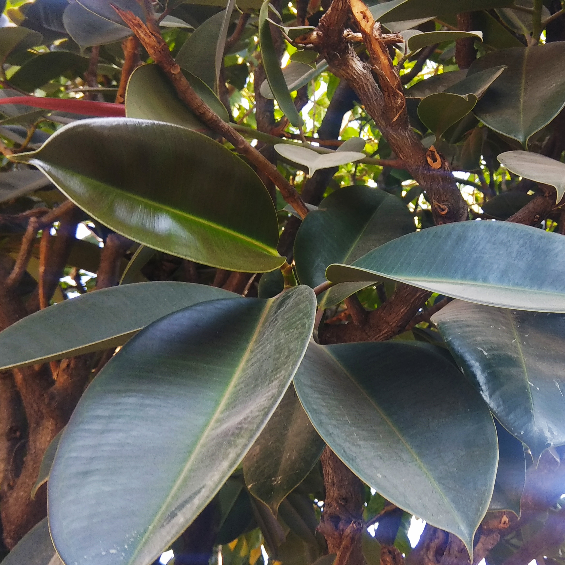 Ficus elastica